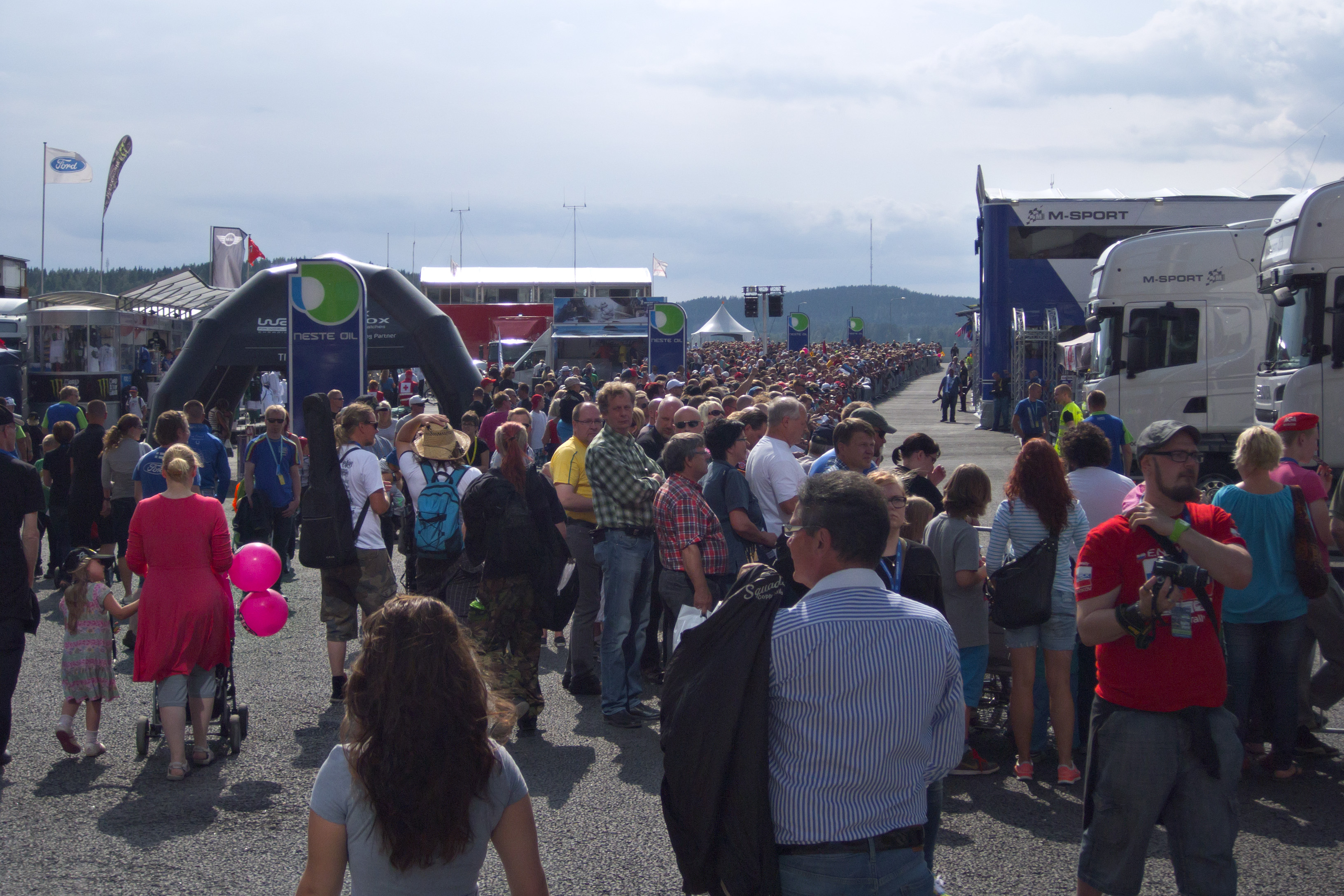 Action from the service D during the 2012 Rally Finland.